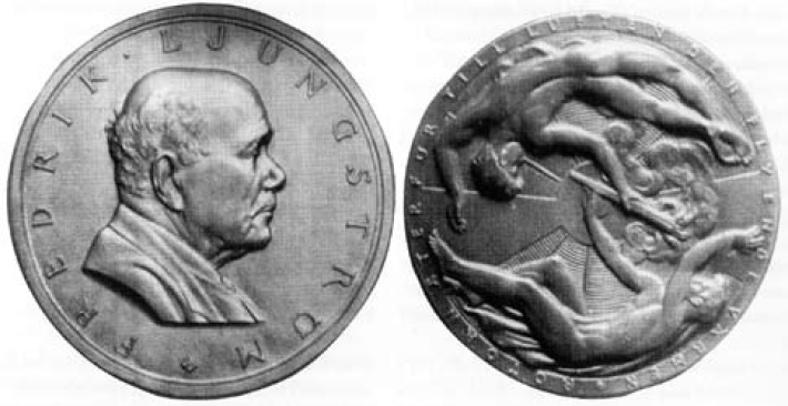 Medal in honour of Swedish engineer Fredrik Ljungström, founded in 1957 by Swedish Rotor Machines. On one side Fredrik Ljungström in profile, on the other side Prometheus and Aura, the Greek mythological figures of forethought and air.